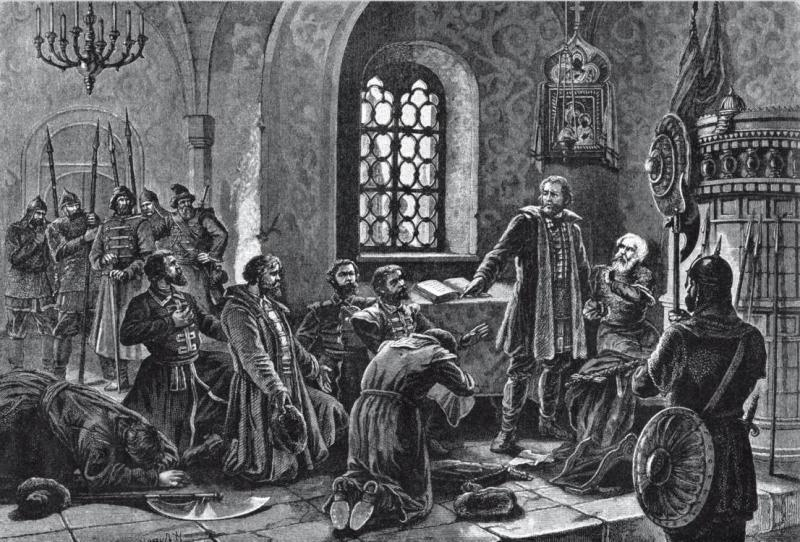 Prince Skopin-Shuisky and the envoys of Prokopy Lyapunov, 1609